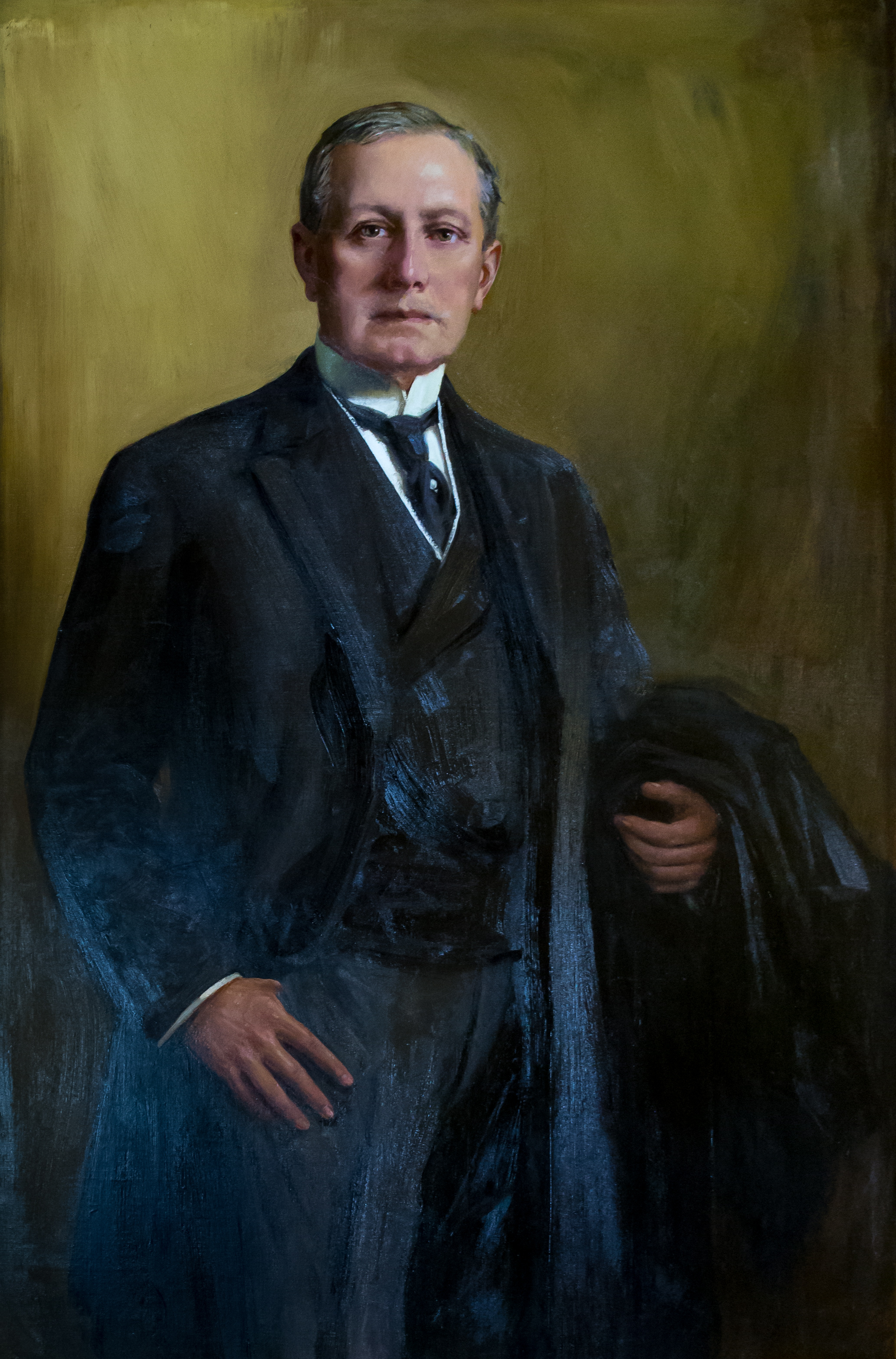 Aram J. Pothier (d. 1929)